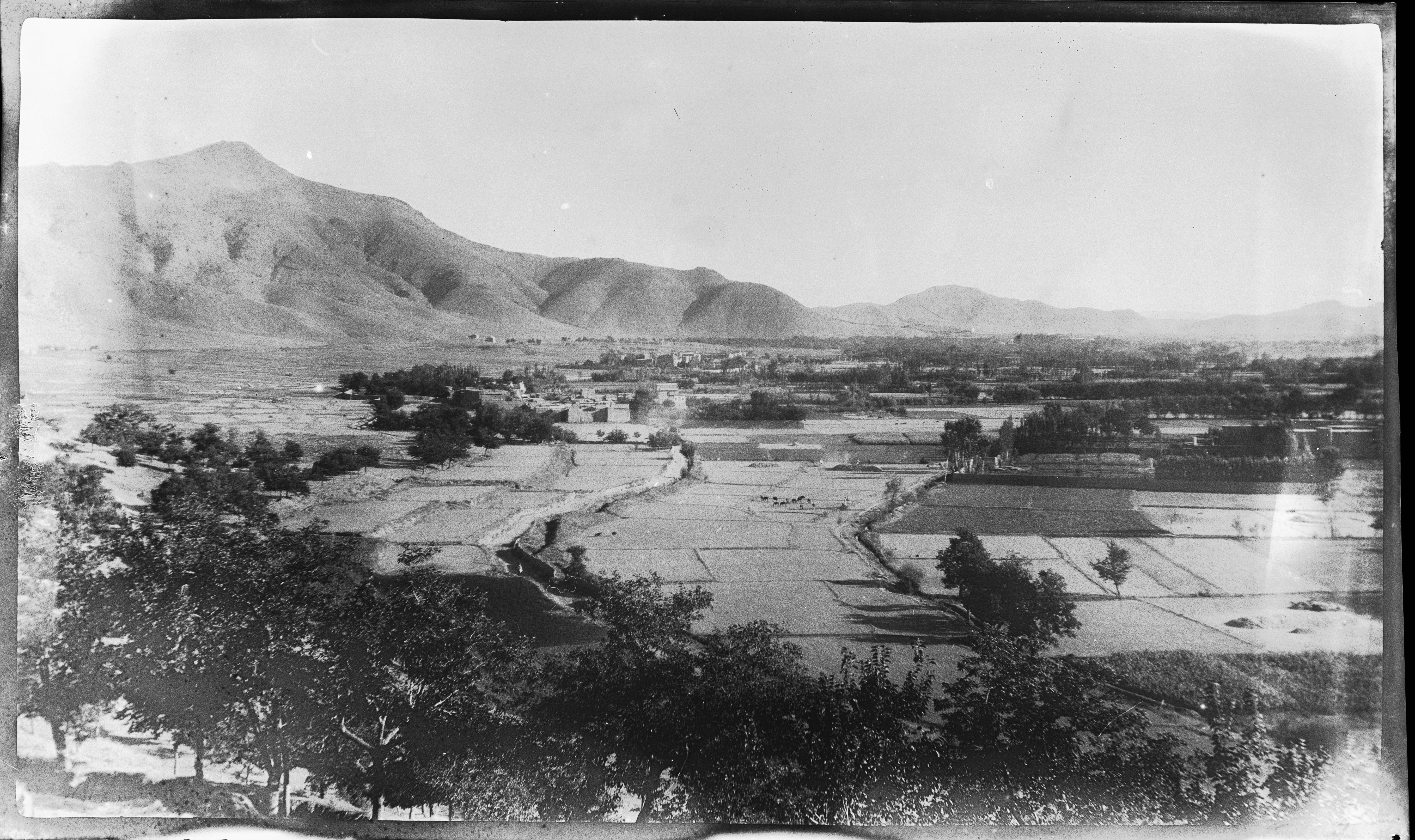 Kabul, Afghanistan The plain towards Chihil Sutun, south of Kabul, seen from Bagh-i Babar.